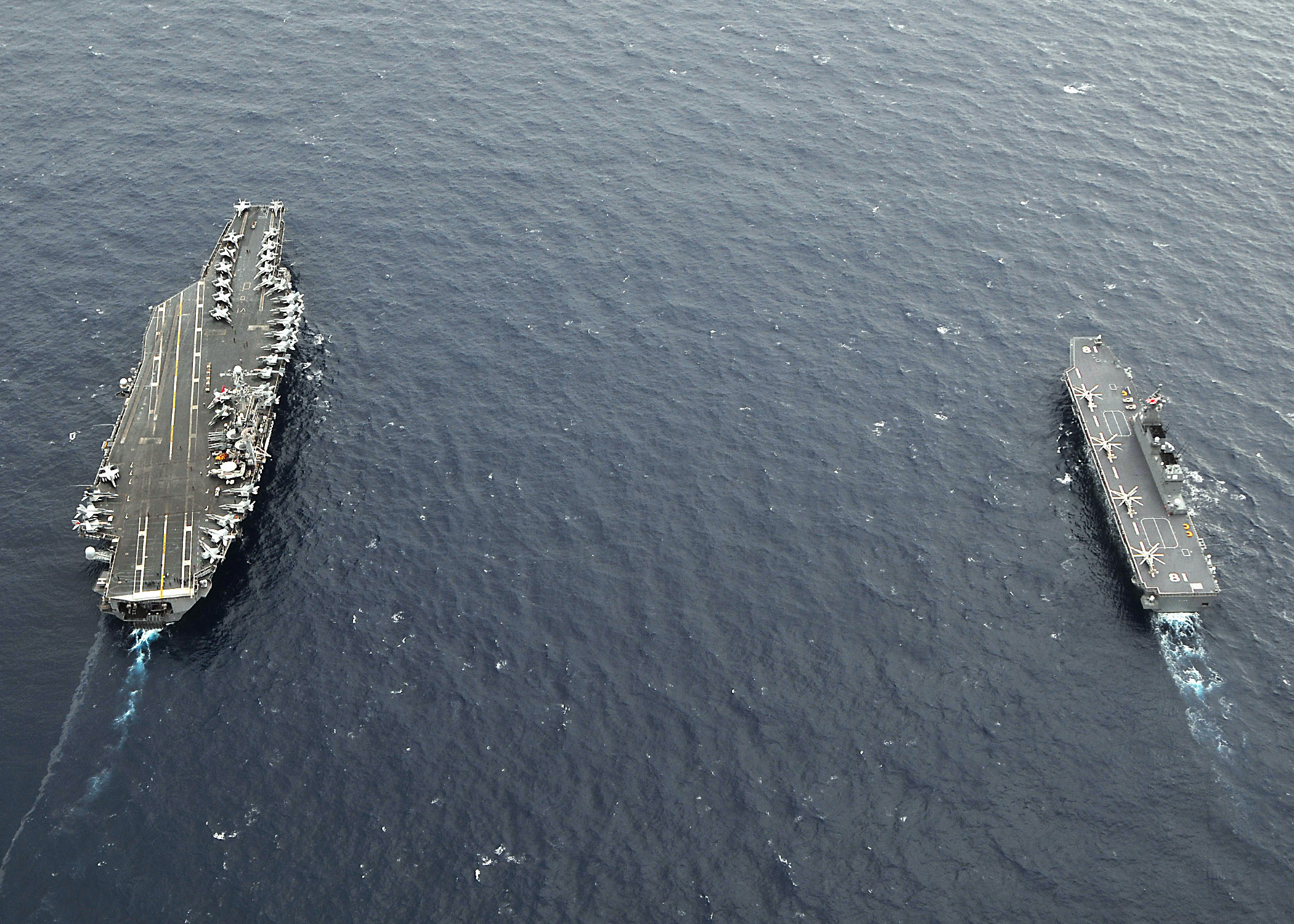 PACIFIC OCEAN (Nov. 17, 2009) - The aircraft carrier USS George Washington (CVN 73) and the Japan Maritime Self-Defense Force helicopter destroyer JS Hyuga (DDH 181) transit the Pacific Ocean. Ships from the U.S. Navy and Japan Maritime Self-Defense Force are participating in Annual Exercise (ANNUALEX 21G), a bilateral exercise designed to enhance the capabilities of both naval forces. (U.S. Navy photo by Mass Communication Specialist Seaman Rachel N. Hatch/Released) Nikon D300